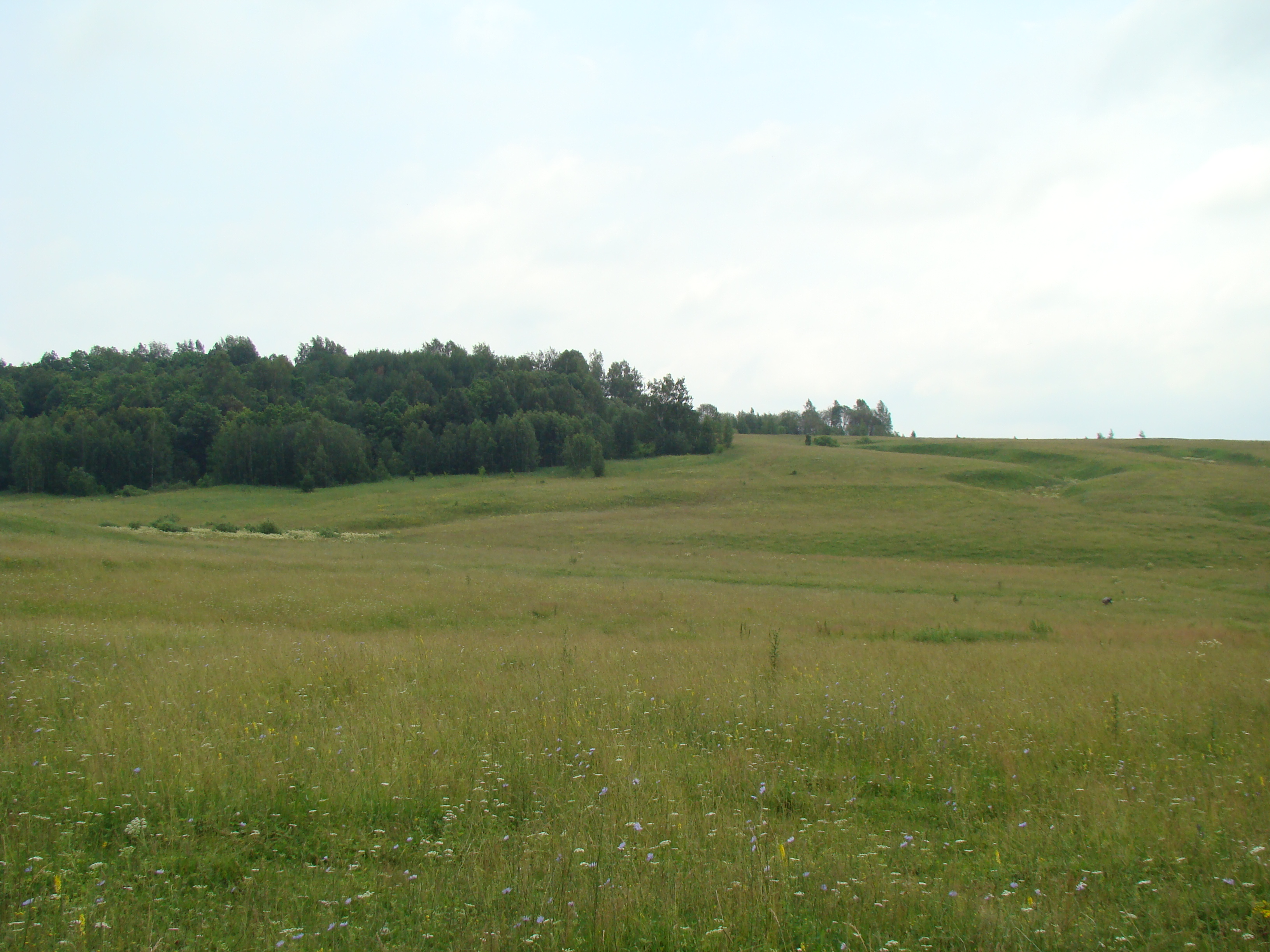 Luchinnik forest near Bolshoe Boldino